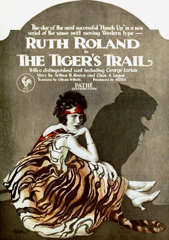 Ad for the American film serial The Tiger's Trail (1919) with Ruth Roland, insert after page 34 of the April 5, 1919 Moving Picture World.